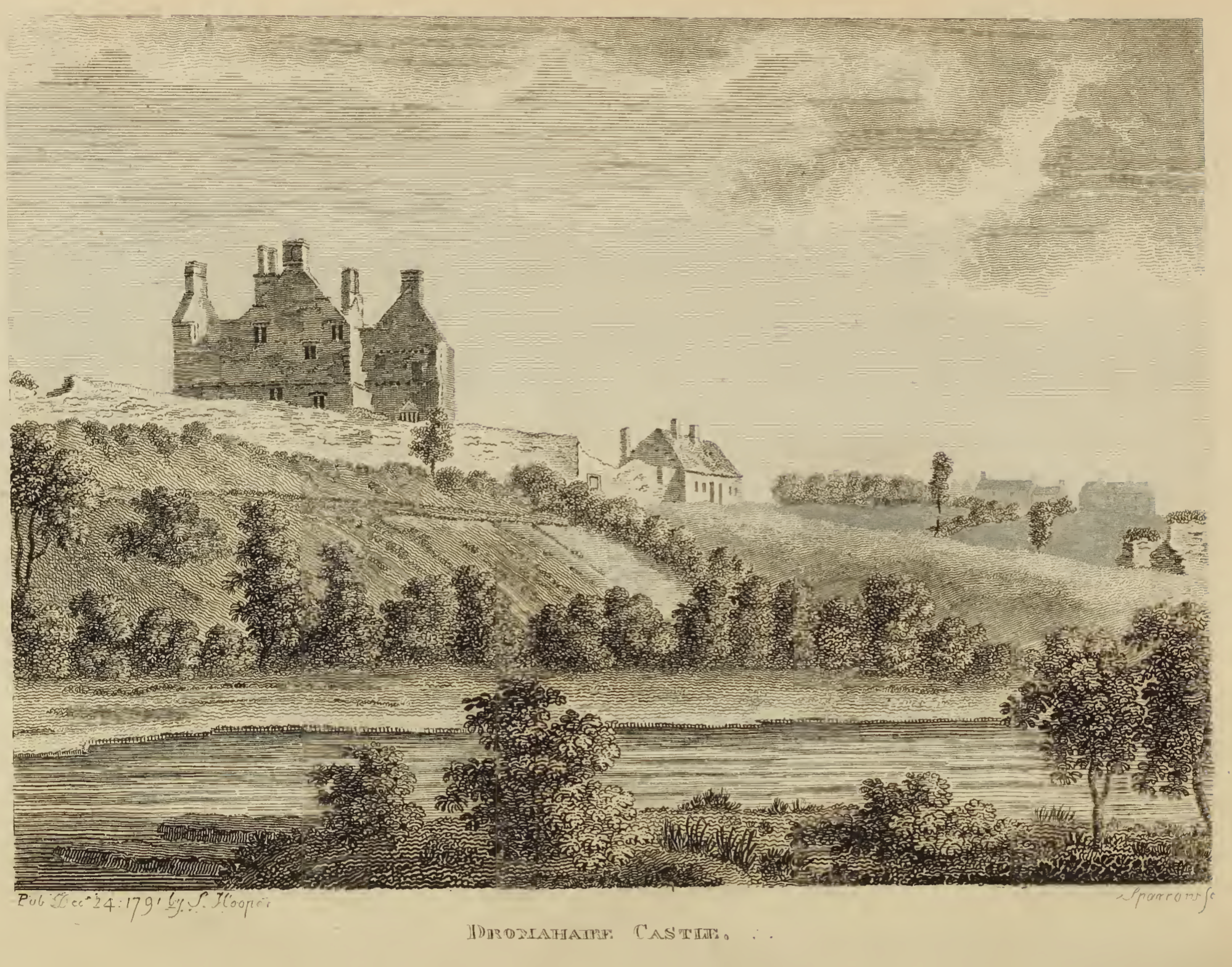 "Dromahaire Castle was erected on a hill clofe to the village of that name by the O'Rorkes, formerly a powerful fept here. This View was drawn by T. Cocking, anno 1791."